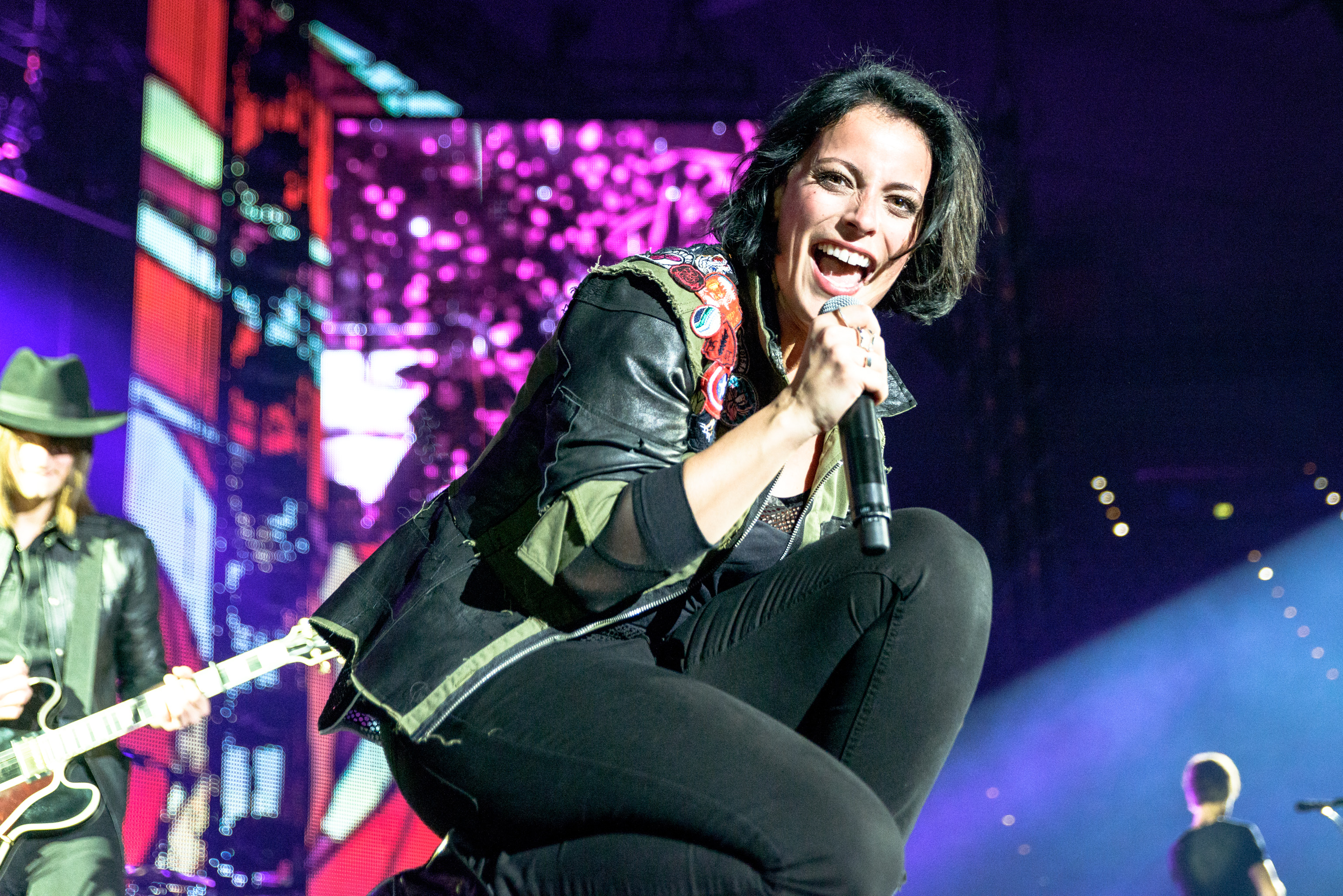 Silbermond Live @ Munich 2016